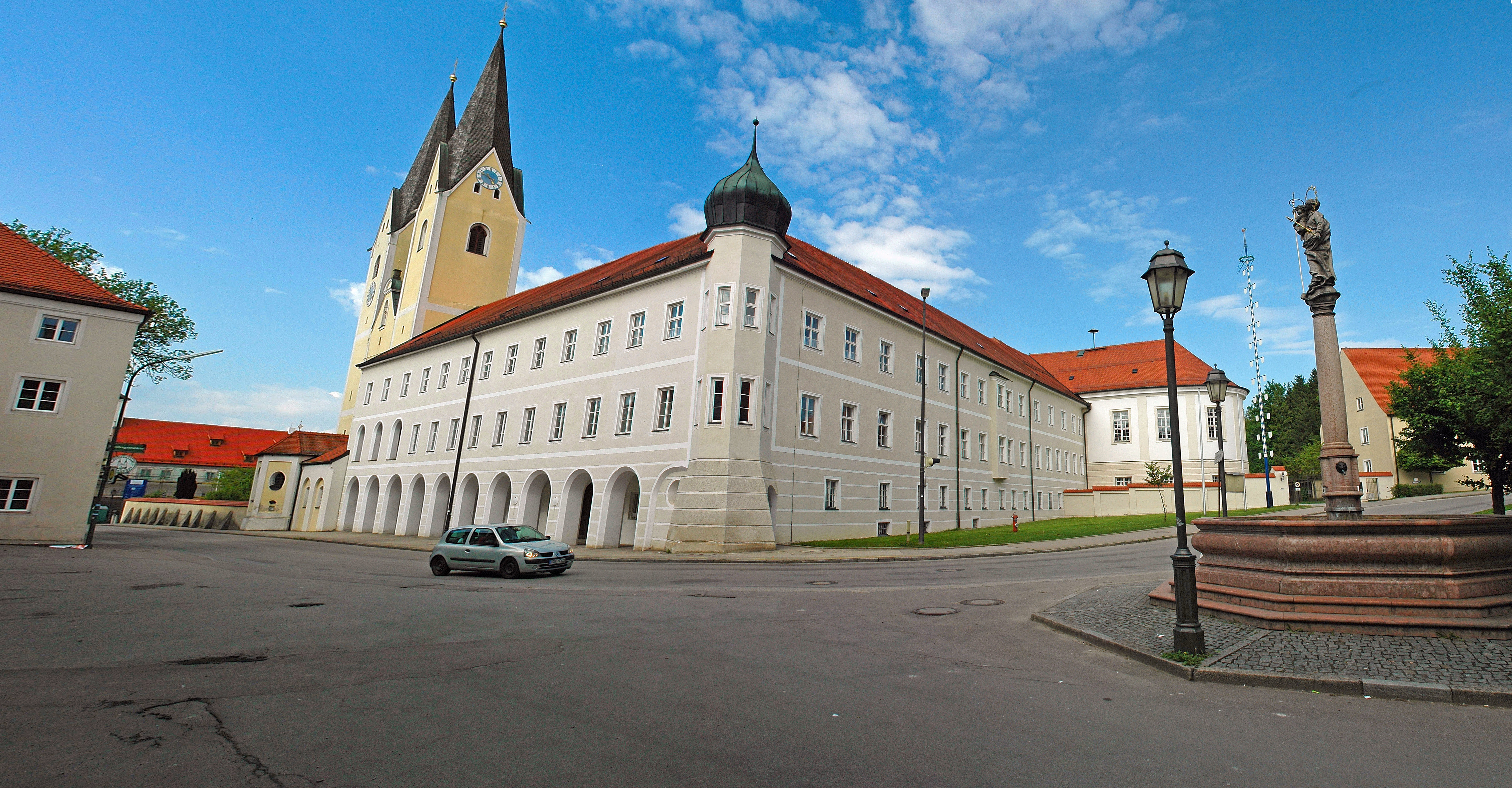 Markt Indersdorf_-_Monastary_-_Panoramic